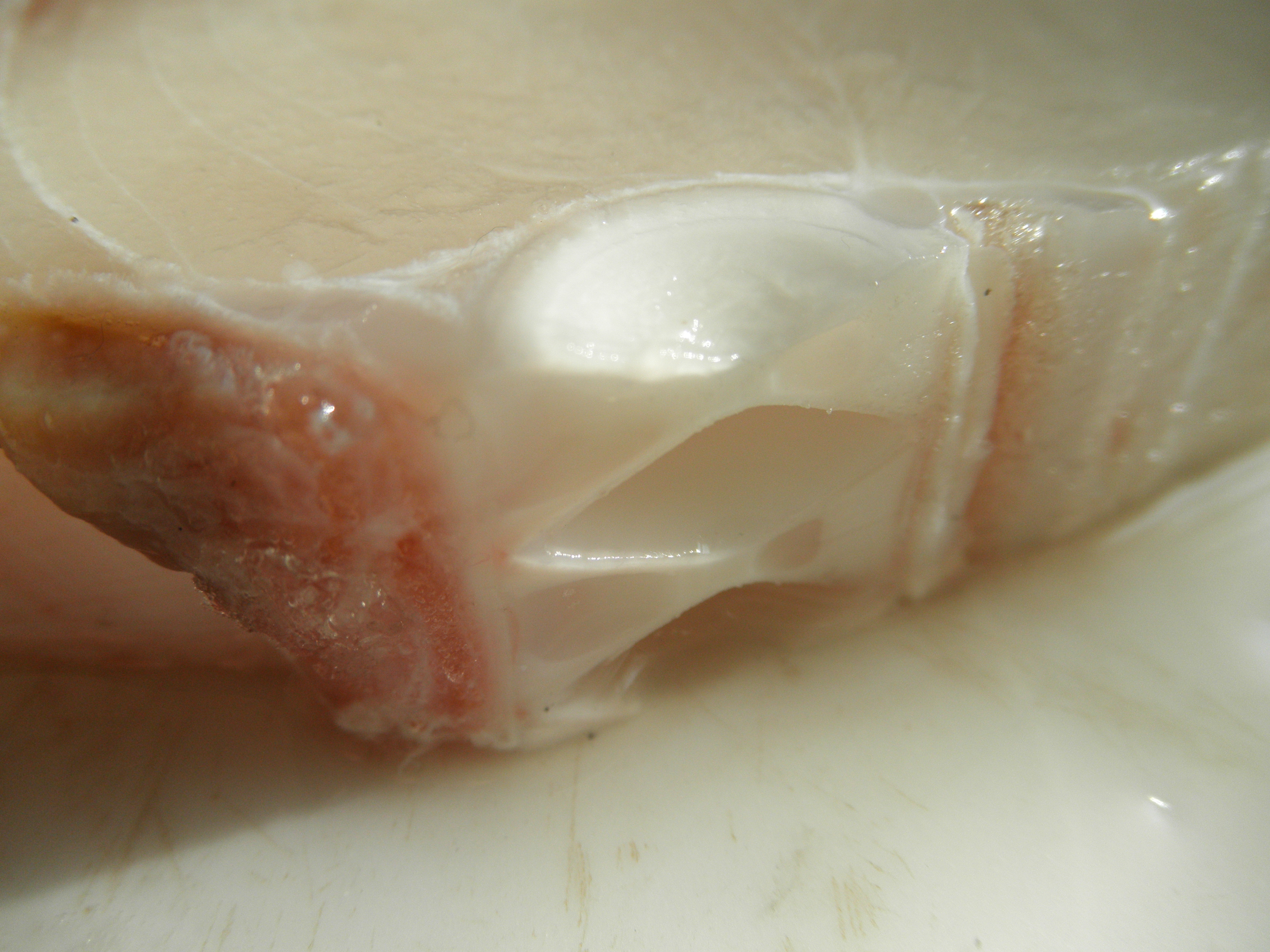 Raw steak of blue shark (Prionace glauca) showing cross section the shark cartilage.